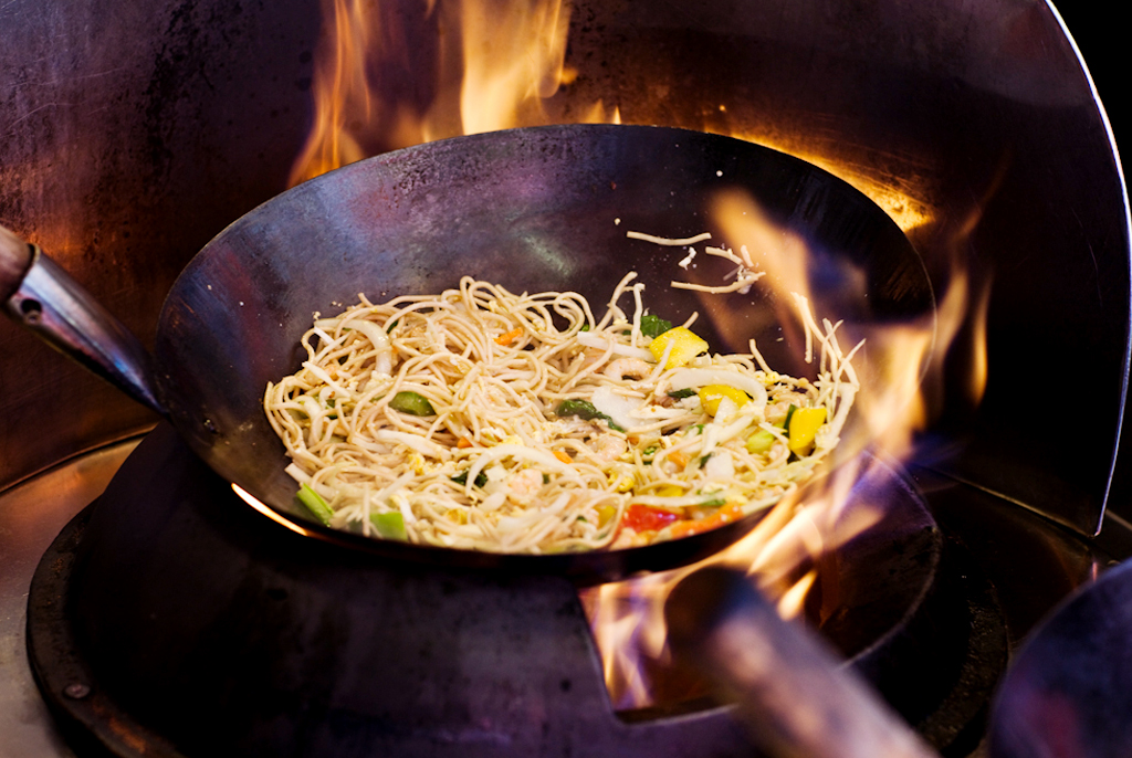 Cooking noodles in a wok